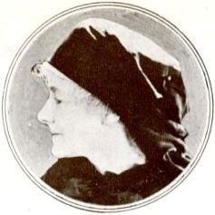 Actress Edith Yorke (1867 – 1934), on page 11 of the September 1920 The Silver Sheet, in a promotion for the American drama film Homespun Folks (1920).